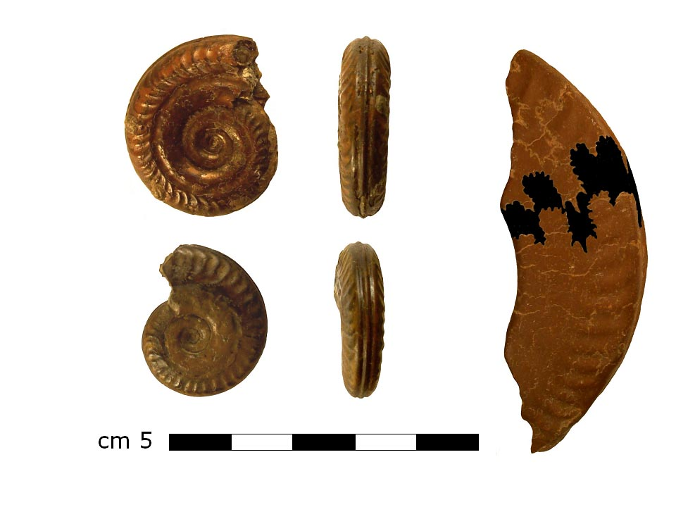 ammonites belonging to the genus Hildoceras (H. gr. bifrons).